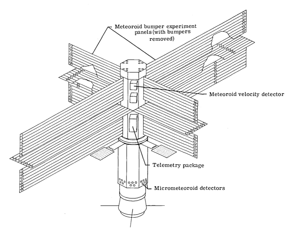 Drawing of Explorer 46 spacecraft (with bumpers removed) showing numbering system used to identify pressurized cells for meteoroid bumper experiment.